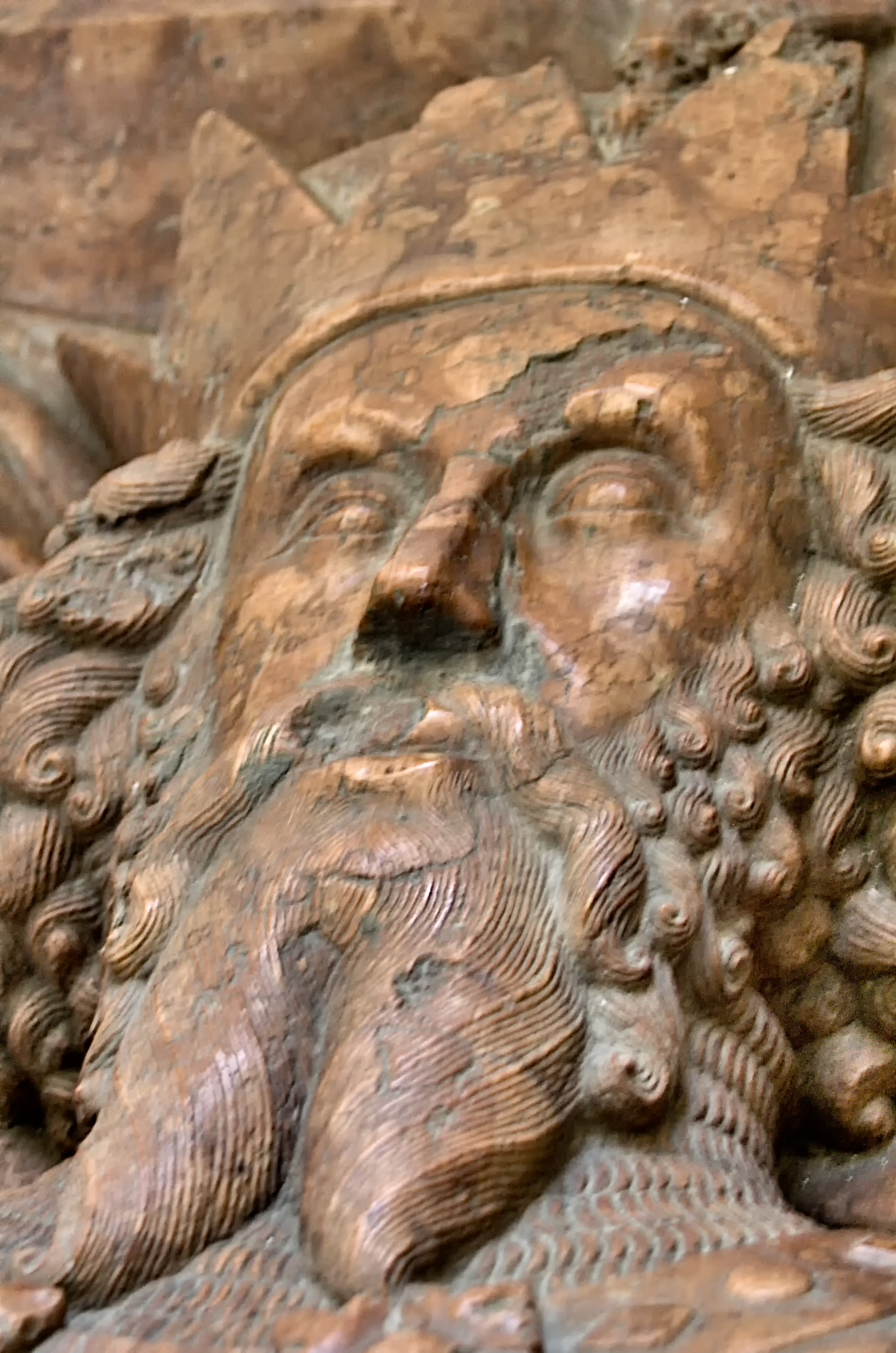 Tomb slab of Ernest,_Duke_of_Austria